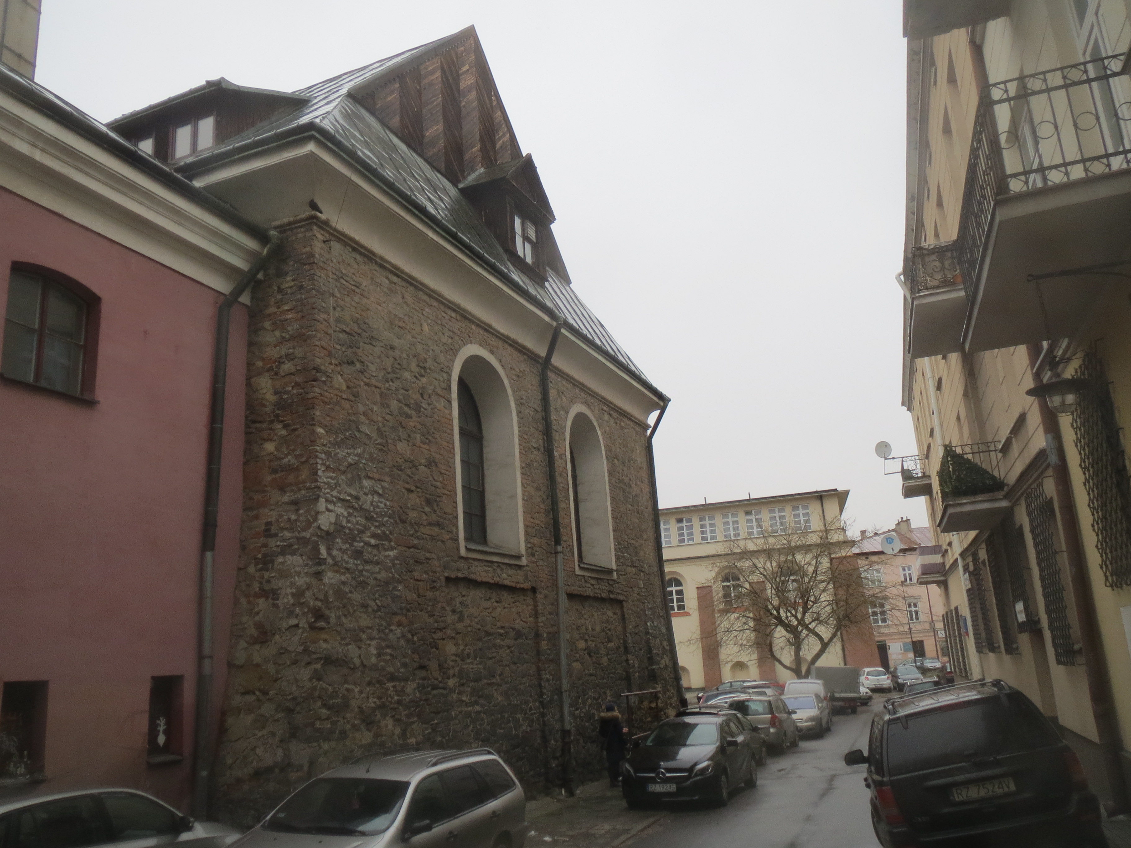 Old Town Synagogue (Rzeszów) with New Town Synagogue in the background